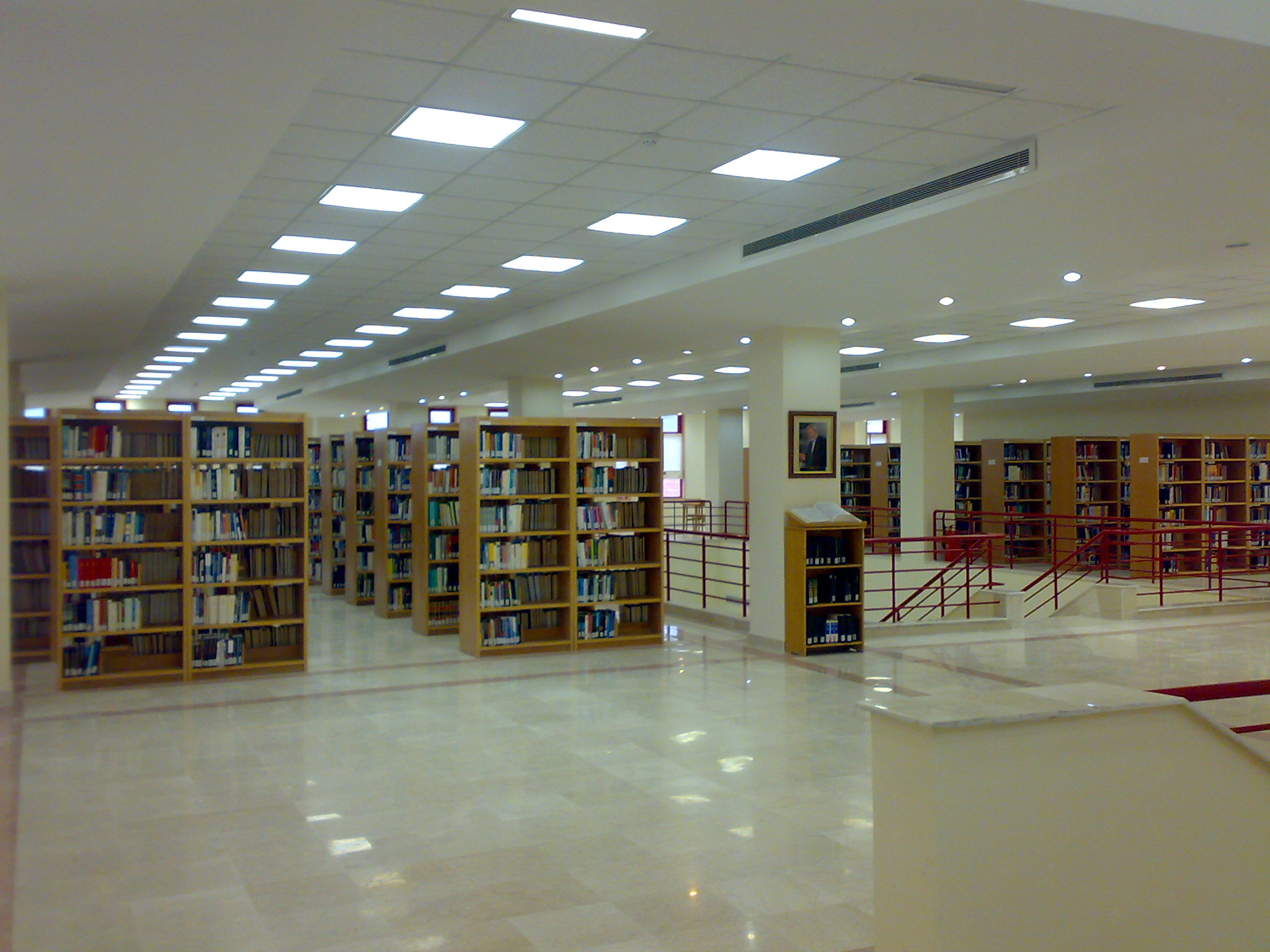 Institute for Advanced Studies in Basic Sciences in Zanjan(IASBS) ,مرکز تحصیلات تکمیلی در علوم پایه